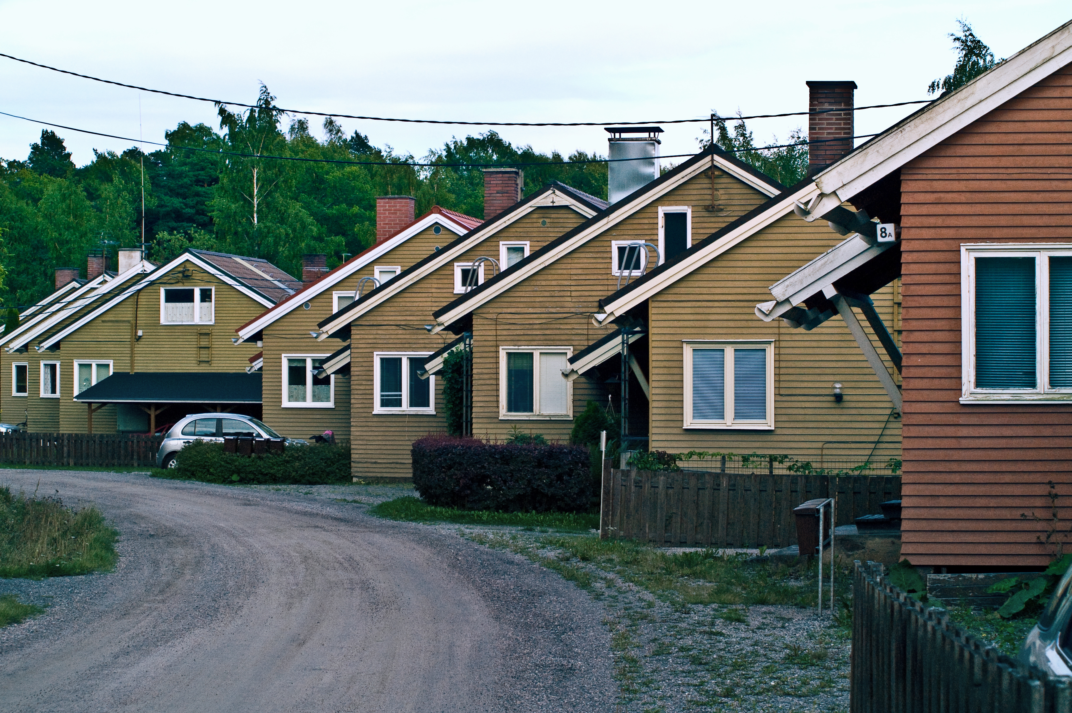 Wooden houses designed by Erik Bryggman, Pansio, Turku, Finland, August 2013.